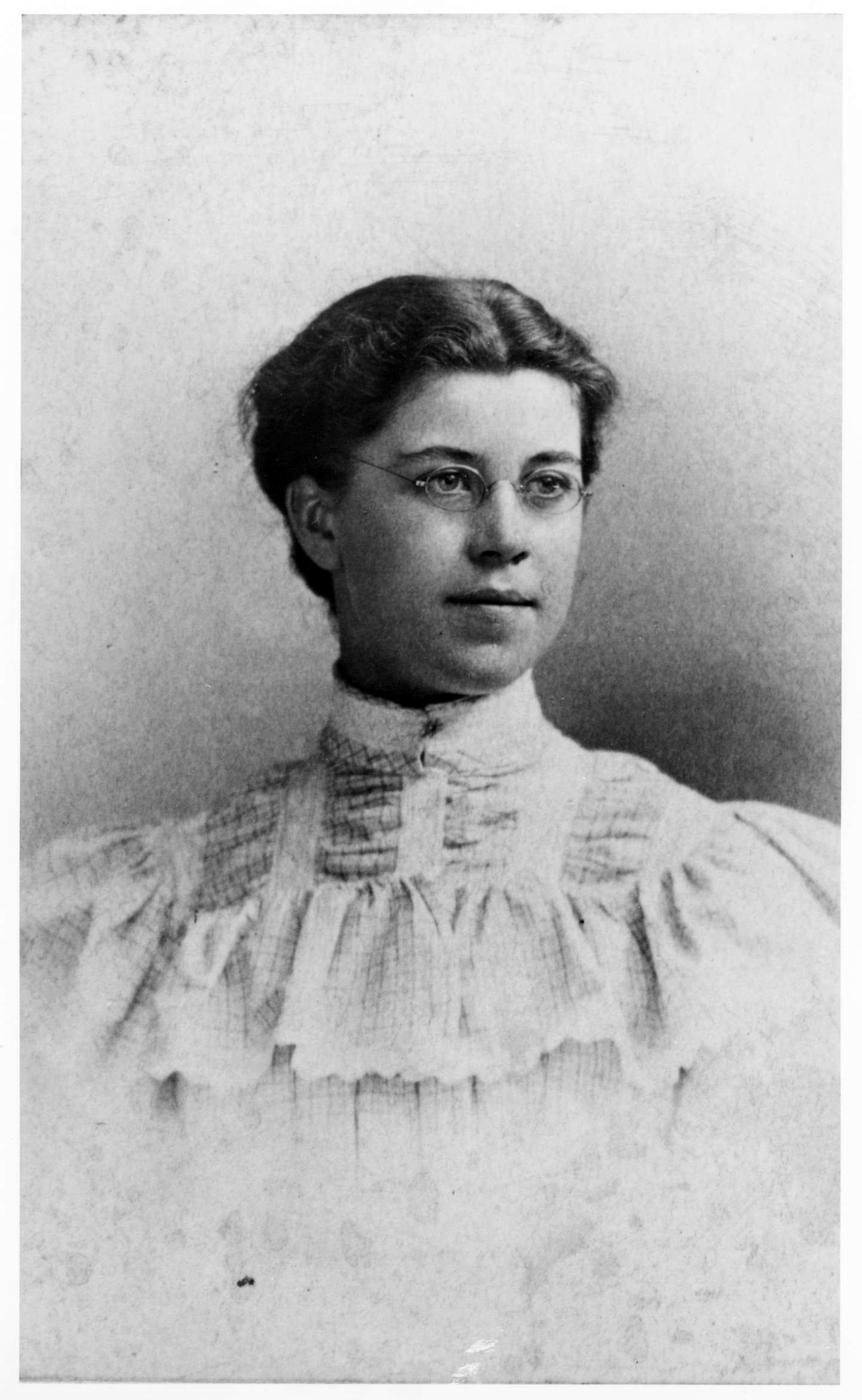 Portrait of a young Katharine Wright around age 16, courtesy of the Wright State University Libraries via the Smithsonian Institution, ID# ms1_28_5_3